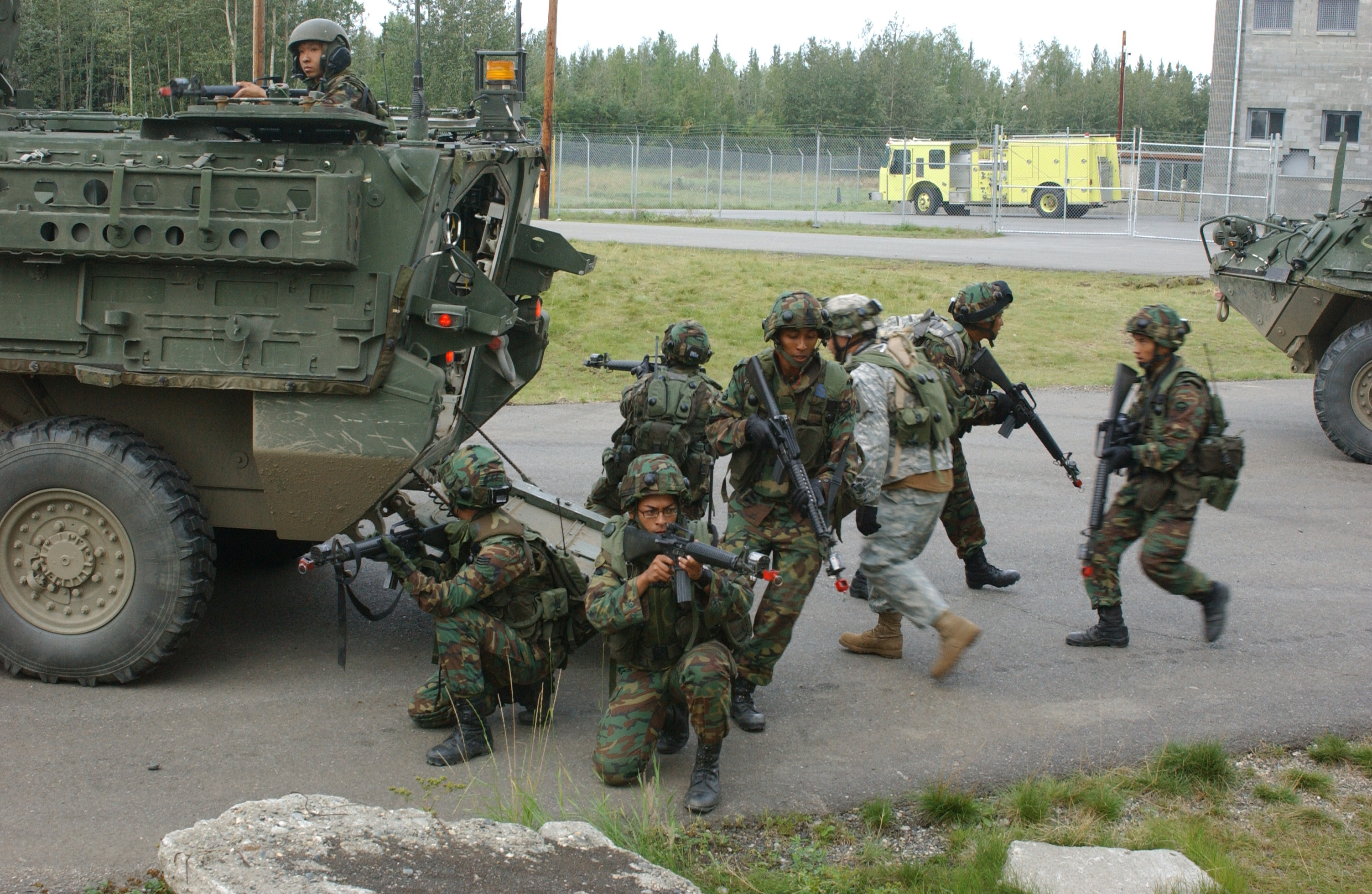 An US Army Soldier from 2nd Platoon, C Company, 1st Battalion, 5th Infantry Regiment, 1st Stryker Brigade Combat Team, 25th Infantry Division,and Singapore soldiers from the Singapore Infantry Regiment 4th Battalion, 6th Division, enter a Stryker at the end of a cordon and search exercise at the Pvt. Joseph T. Martinez Combined Arms Combat Training Facility Aug. 16 at Fort Wainwright, Alaska.